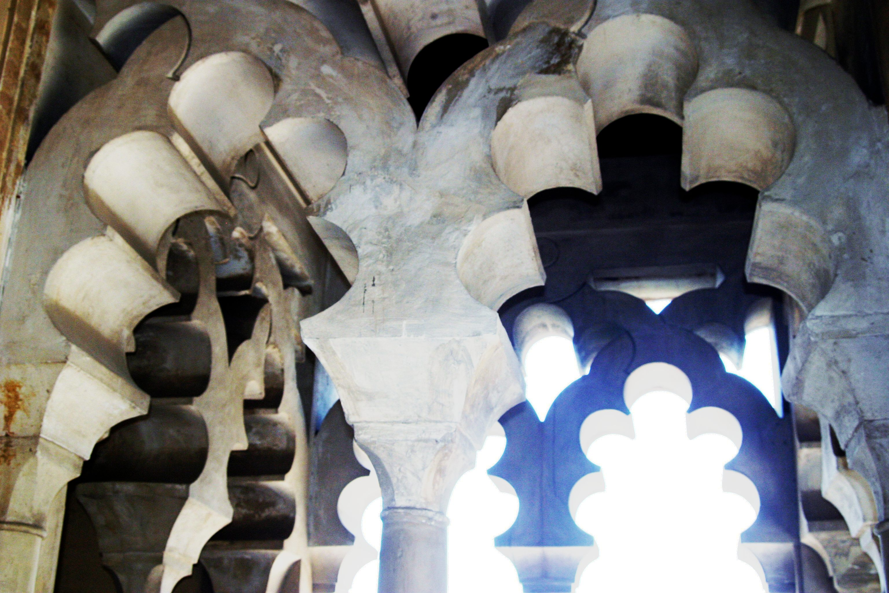 Alcazaba of Malaga, Spain